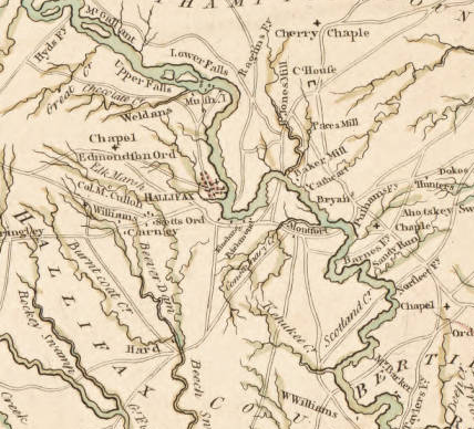 An excerpt of John Collet's 1770 map of North Carolina depicting the environs of Halifax on the Roanoke River.